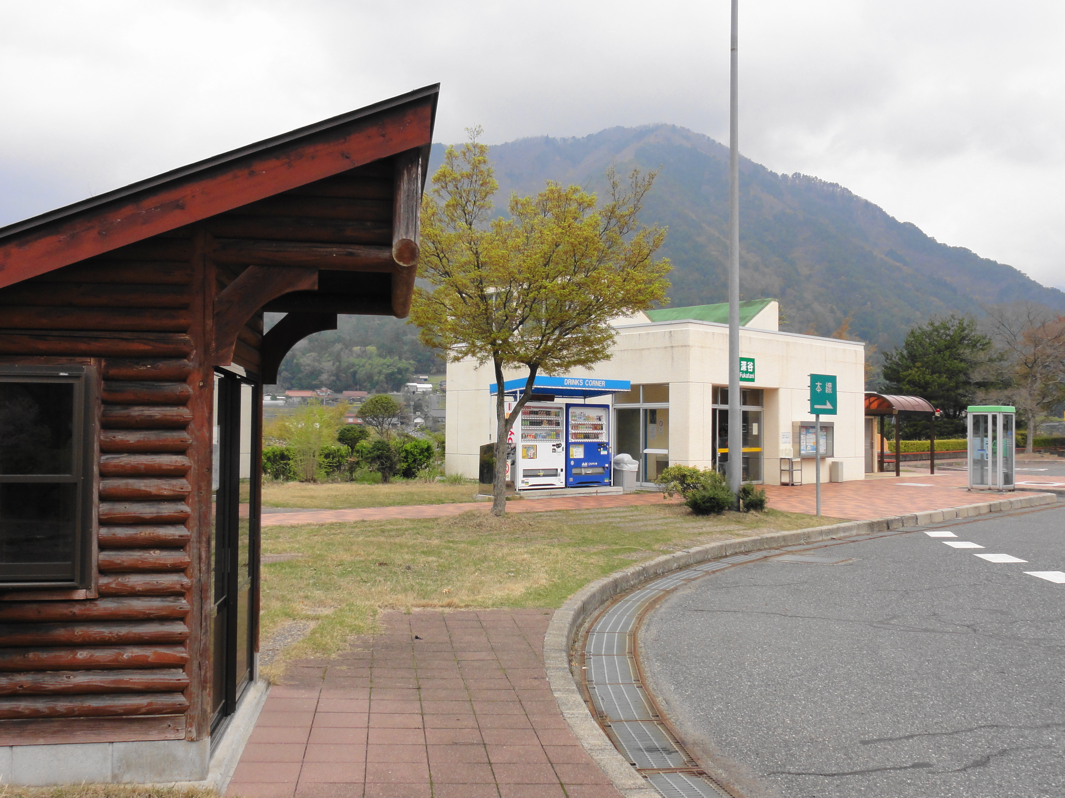 Fukatani Parking Area,Yamaguchi prefecture,Japan